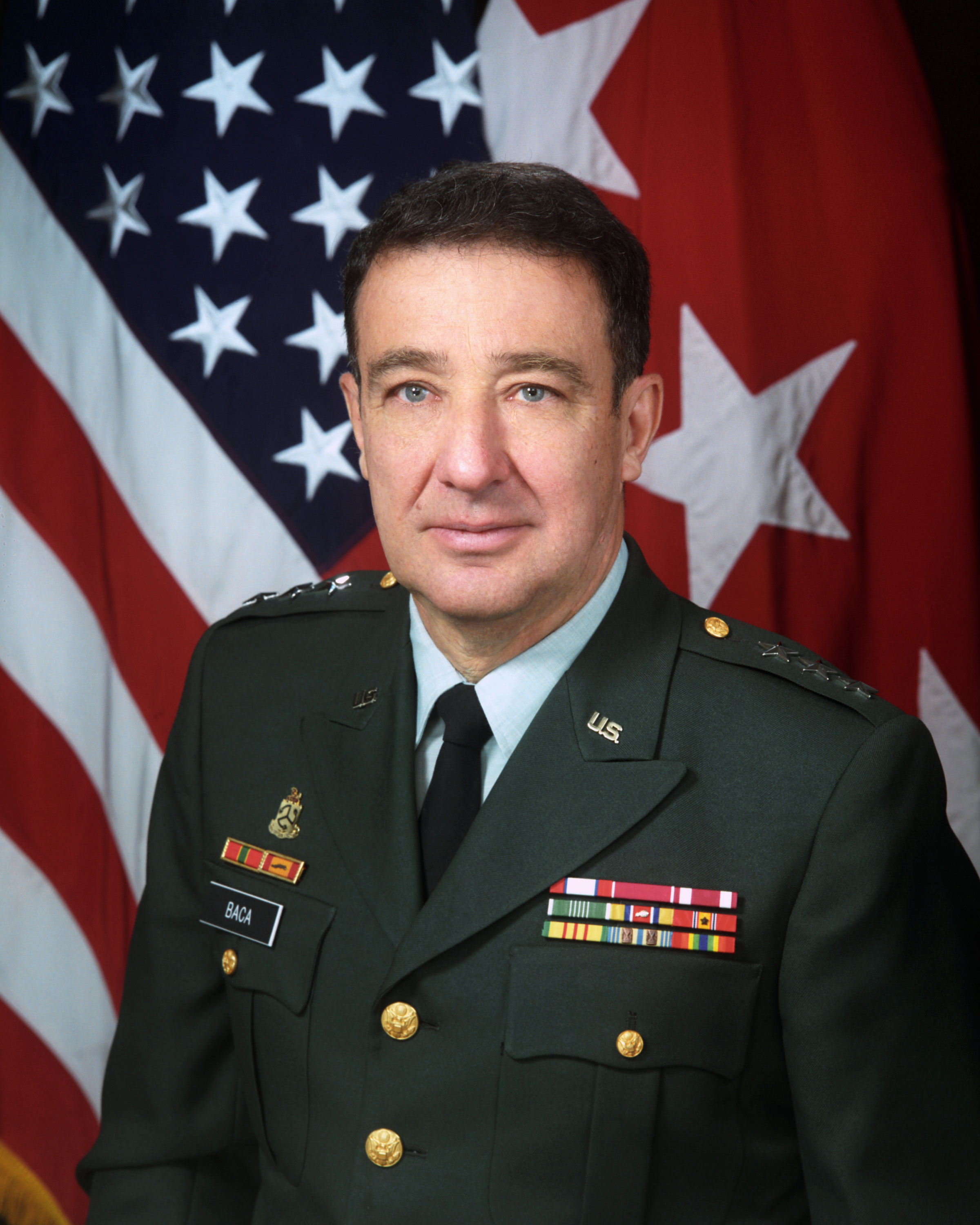 Portrait of U.S. Army Lt. Gen Edward D. Baca, (uncovered), (U.S. Army photo by Mr. Scott Davis) (Released) (PC-192399)